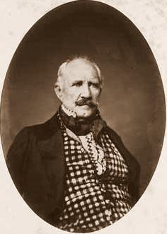 Sam Houston; salted paper print